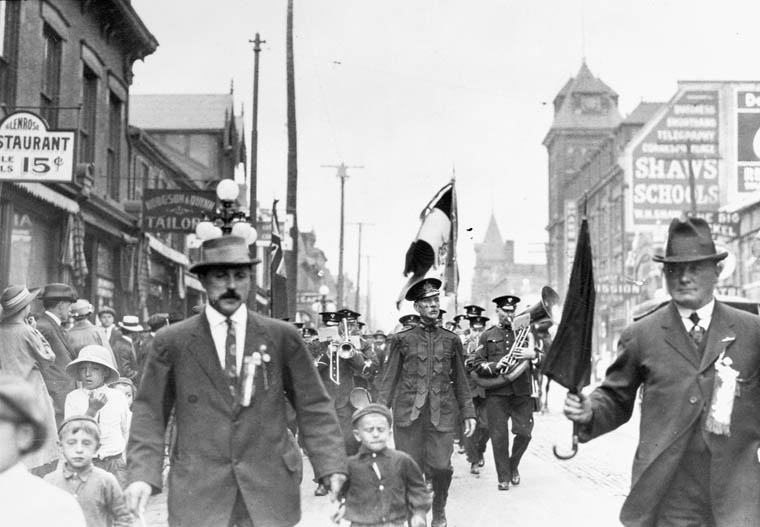 Italian Reservists Living in Toronto, going to war, marching down Yonge Street, just below Gerrard Street looking North (Toronto, Canada)